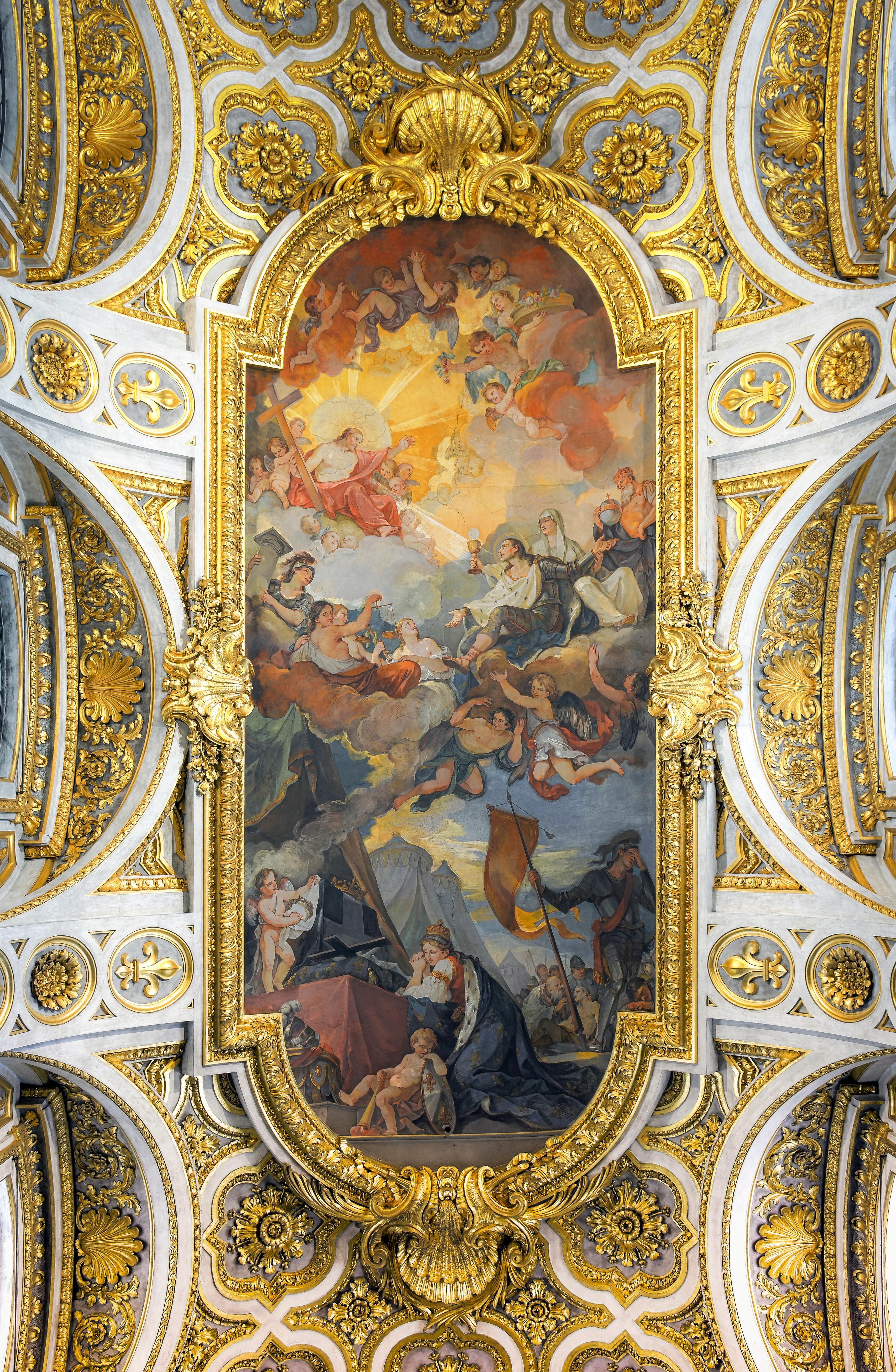 San Luigi dei Francesi (Rome) - Ceiling HDR, with the Apotheosis of Saint Louis, painted by Charles-Joseph Natoire (1754-1756)